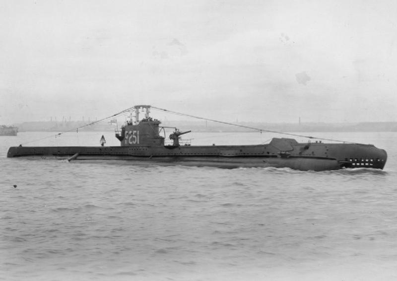 British S class submarine HMSM SUBTLE underway, coastal waters